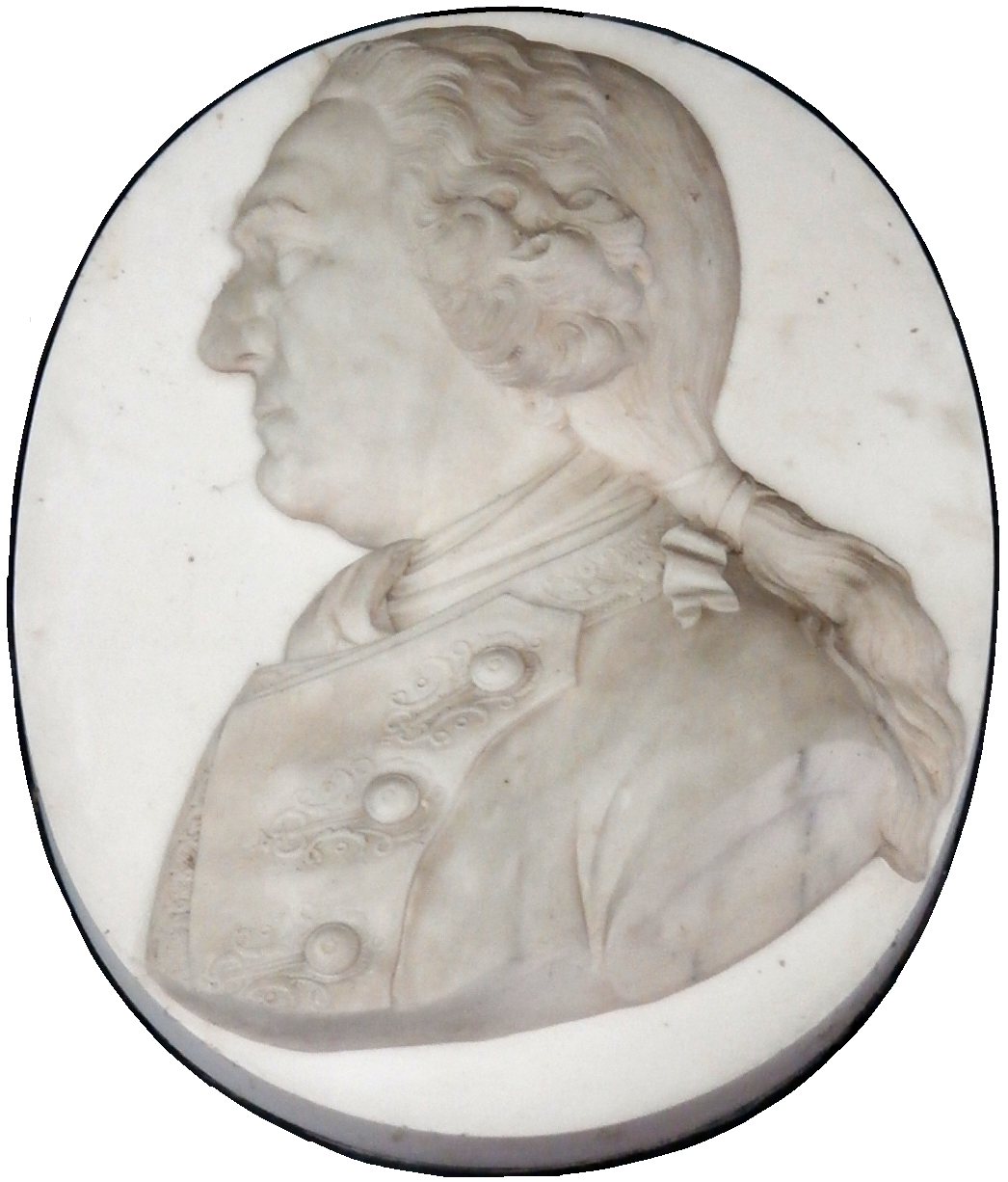 Major-General Stringer Lawrence (1697-1775), marble relief sculpture of profile bust, detail from his mural monument in Dunchideock Church